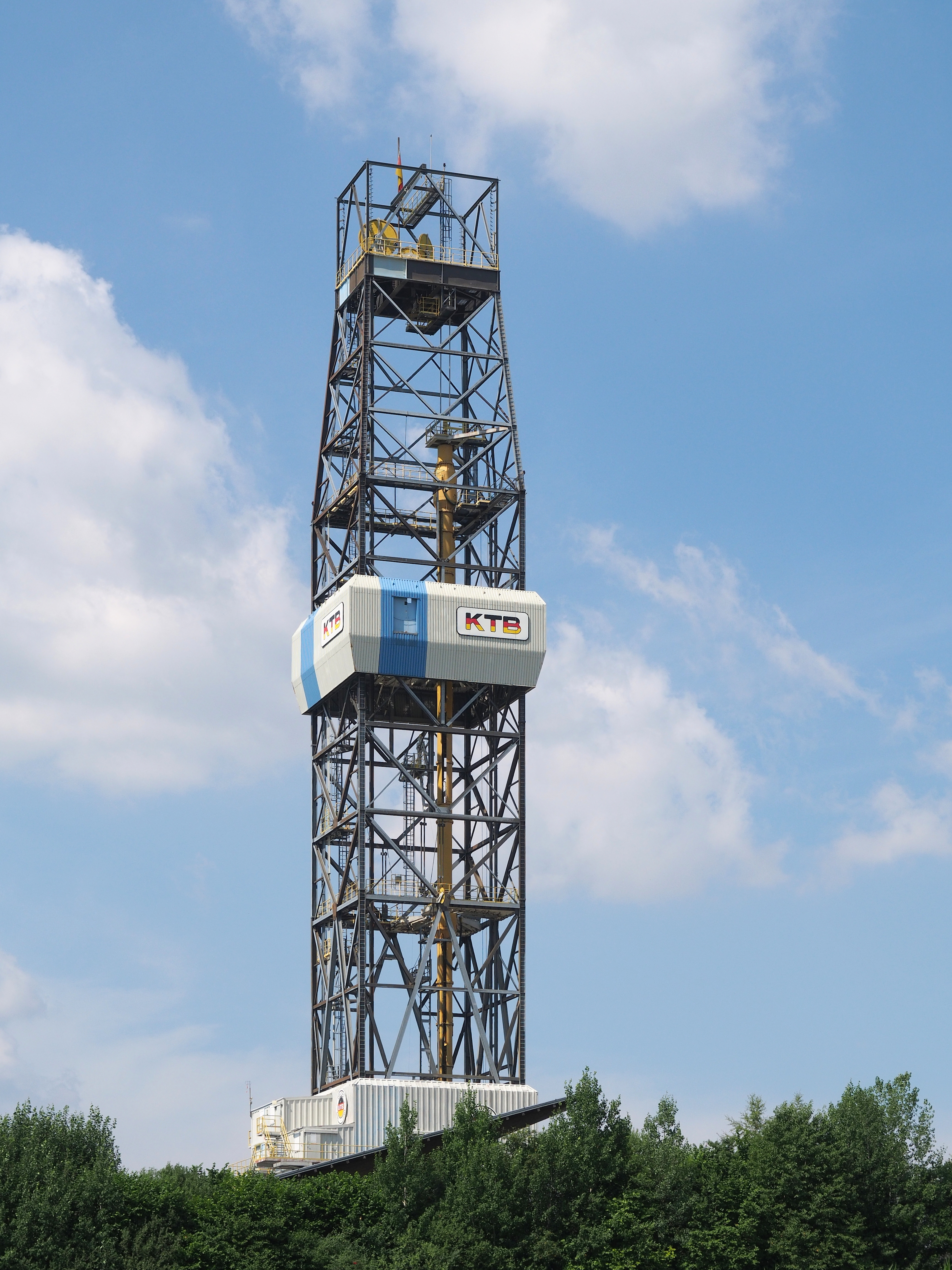 Drilling tower of the German Continental Deep Drilling Program